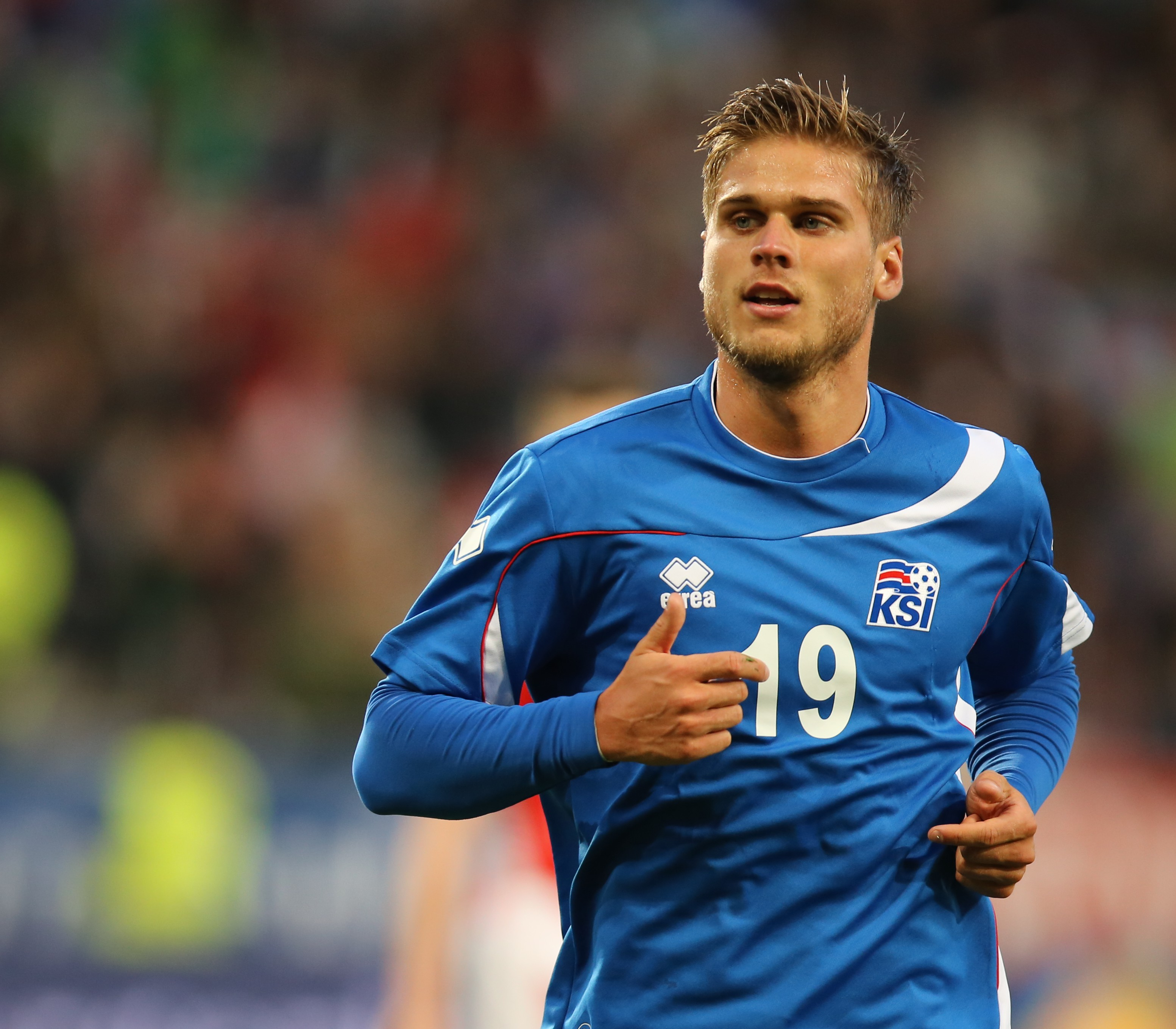 Austria - Iceland football match in Innsbruck, Austria on 2014-05-30. Austria in red, Iceland in blue.